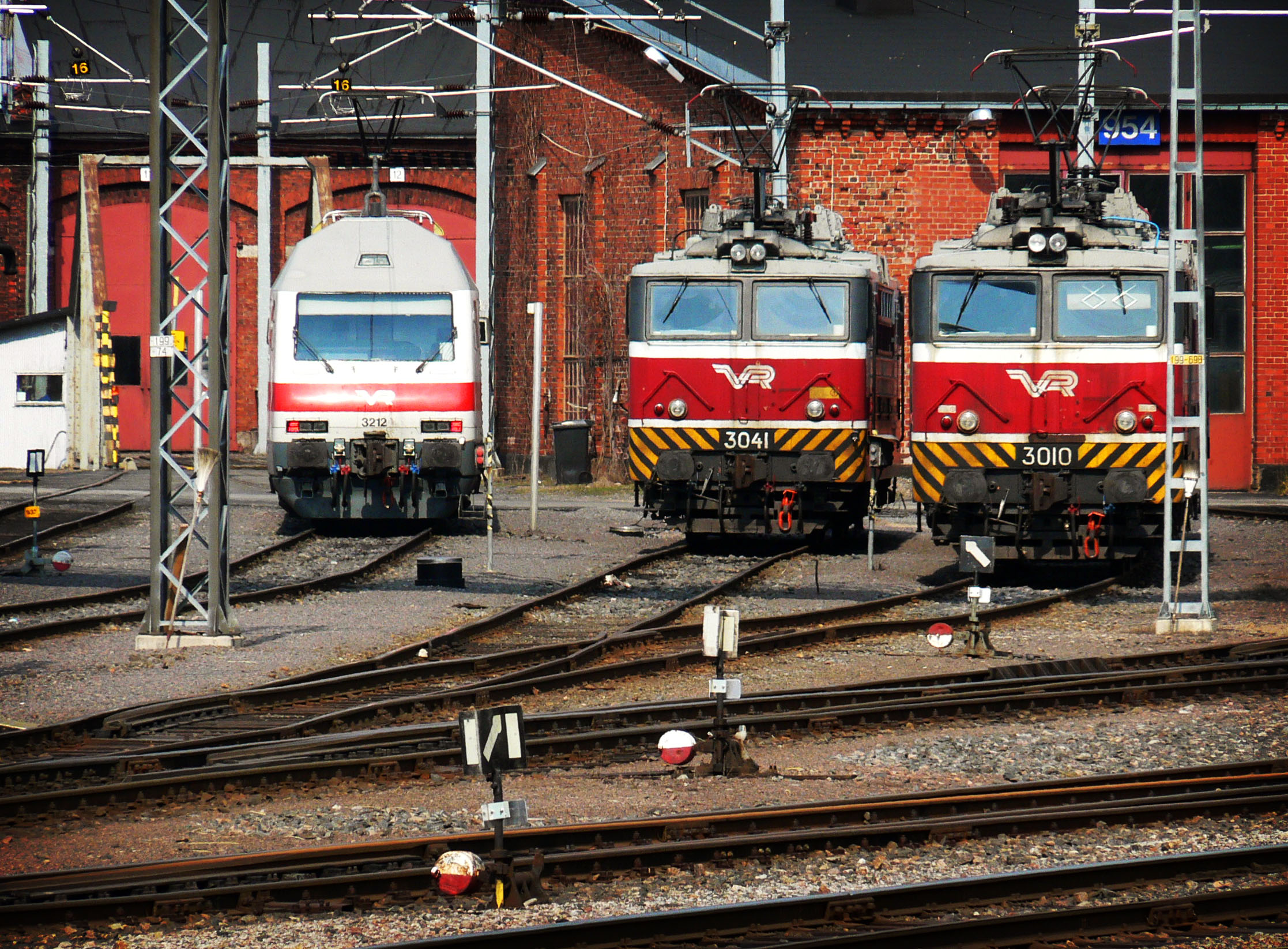 A VR Class Sr2 (no. 3212) and two VR Class Sr1 (no. 3041 & 3010) electric locomotives at the Turku railway station in Turku, Finland